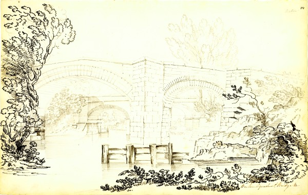 The original Barton Aqueduct in 1807